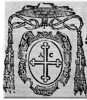 Coat of arms of Niccolò Gaddi